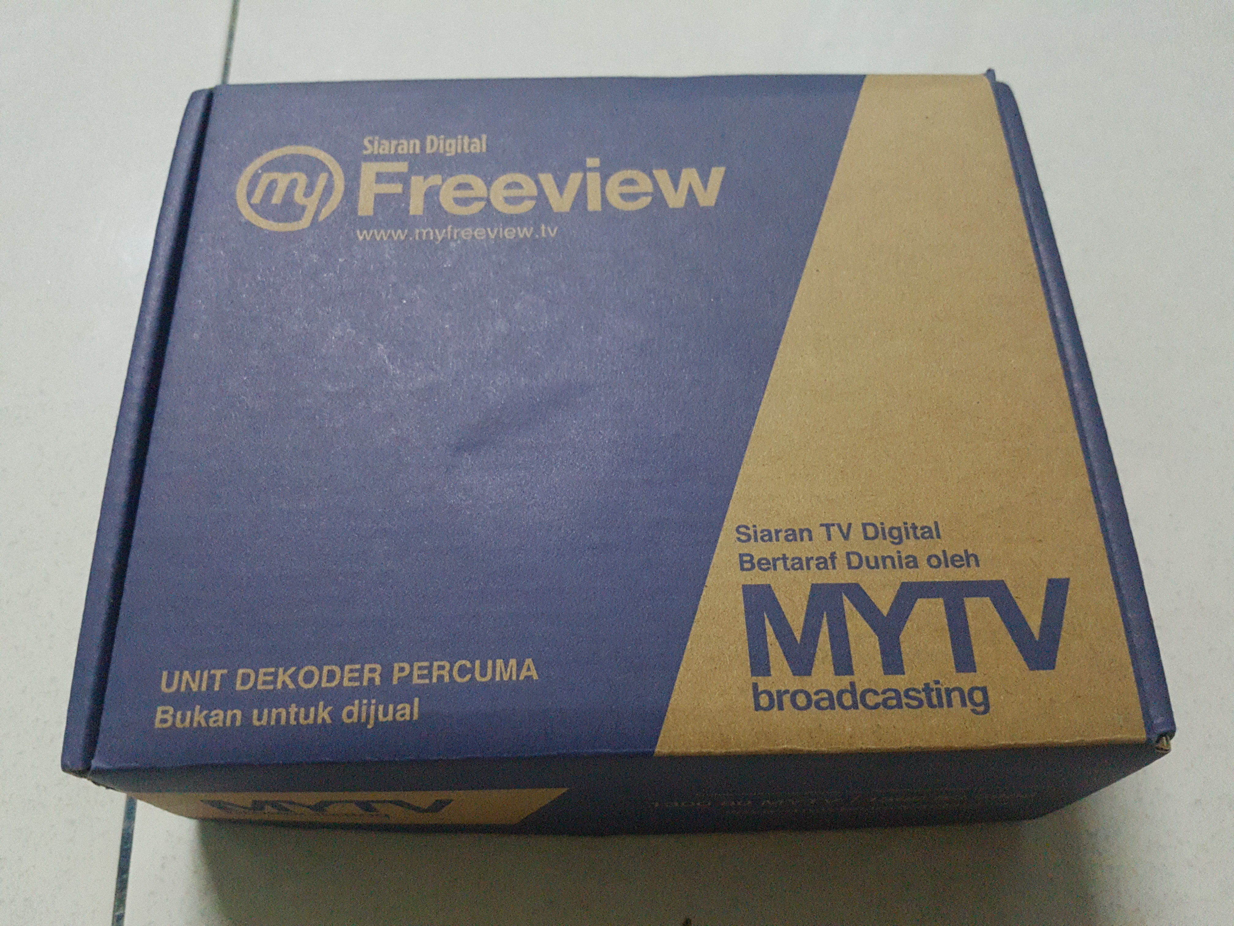 The box of MYTV Free Decoder Unit provided by the government of Malaysia to B40 group of Malaysians so that they could continue watching television after analogue broadcast is terminated without having to pay for new television set.